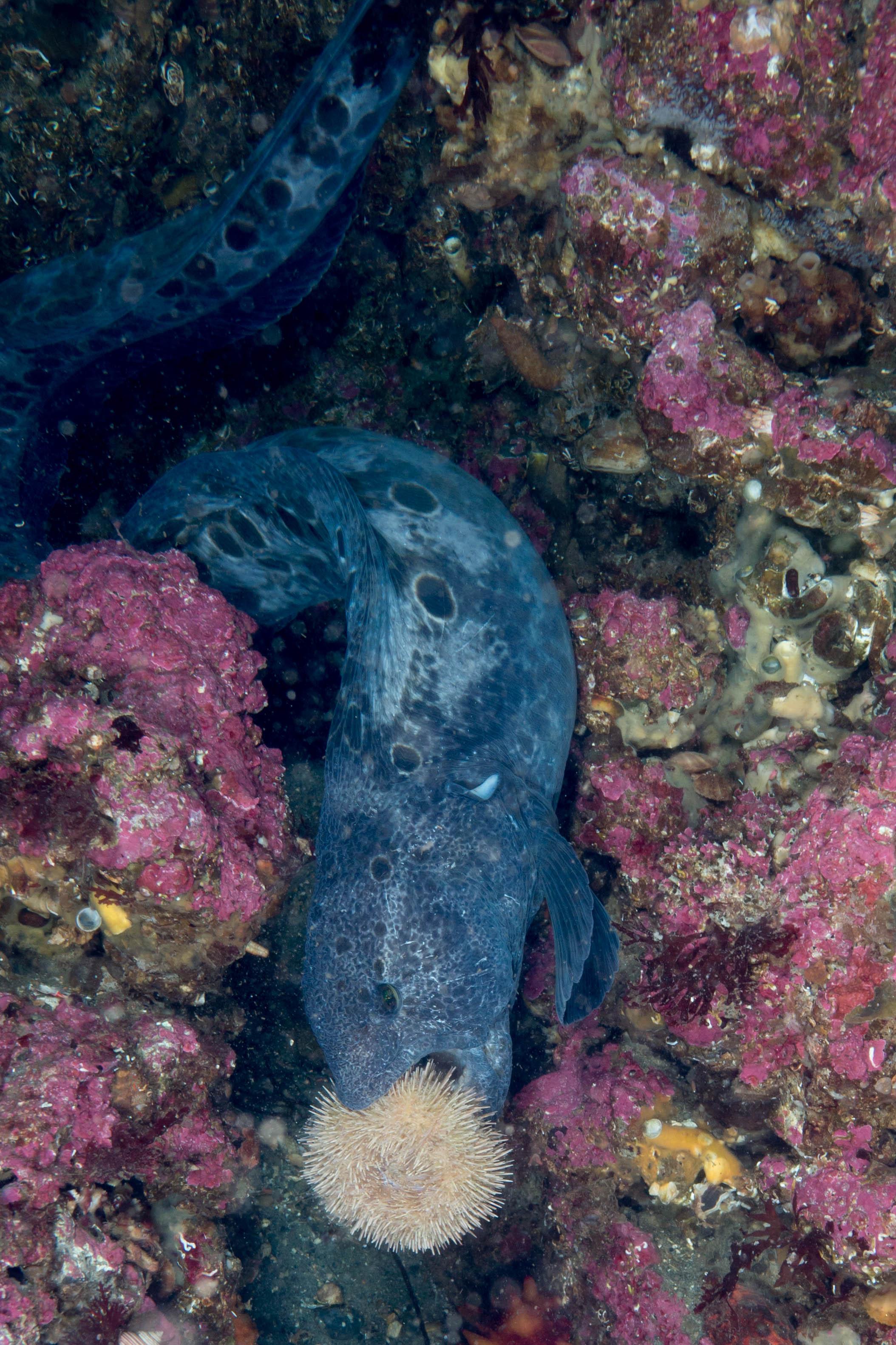 A wolf eel (Anarrhichthys ocellatus) eating a sea urching off Maury Island, Washington, U.S.A.